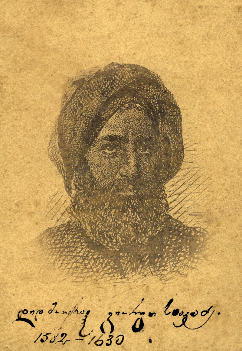 The 19th-century photo-reproduction of the 16th-century portrait, presumably depicting the Georgian warlord Giorgi Saakadze under the Ottoman service